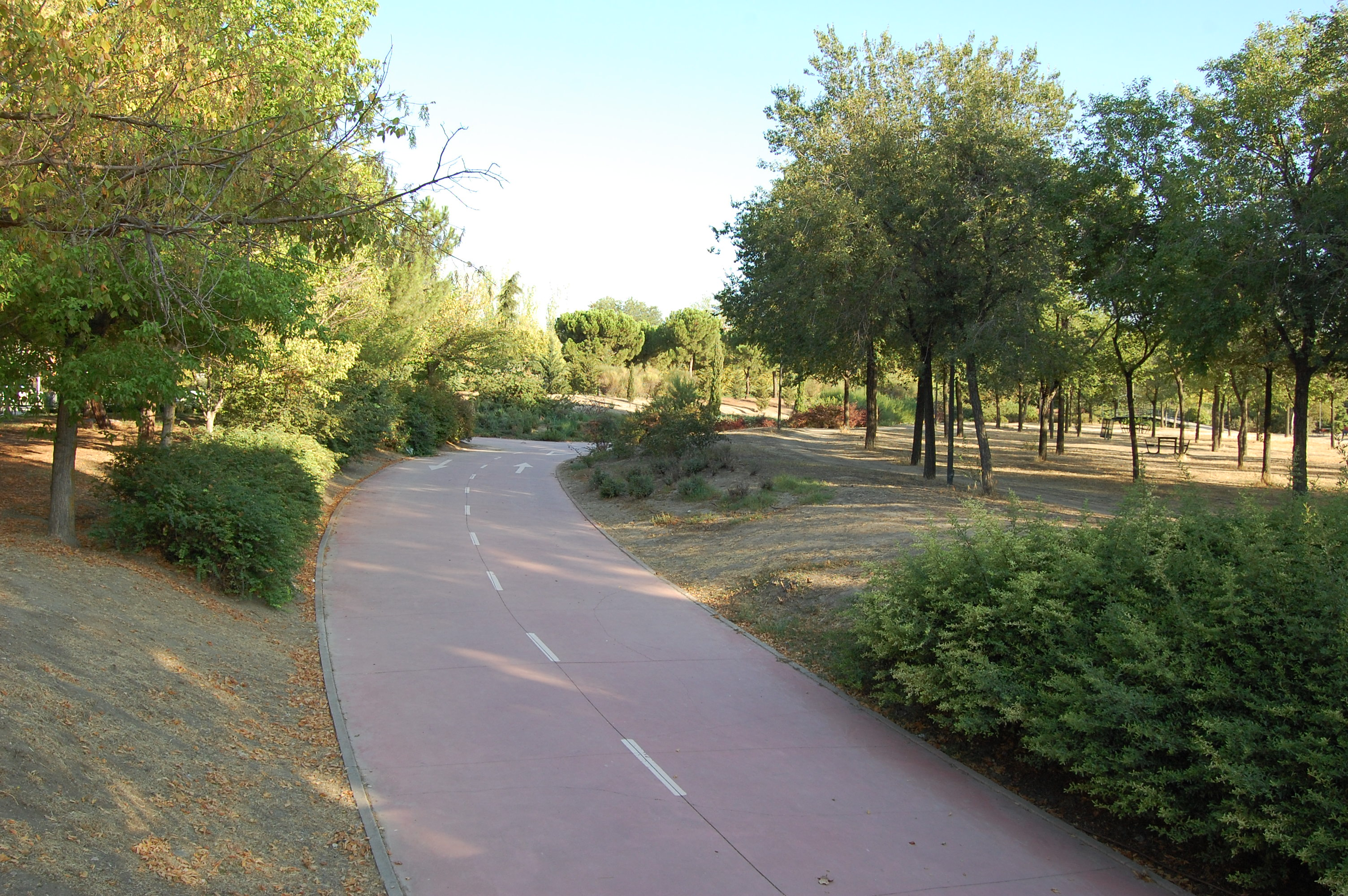 Cycle path in Pradolongo Park